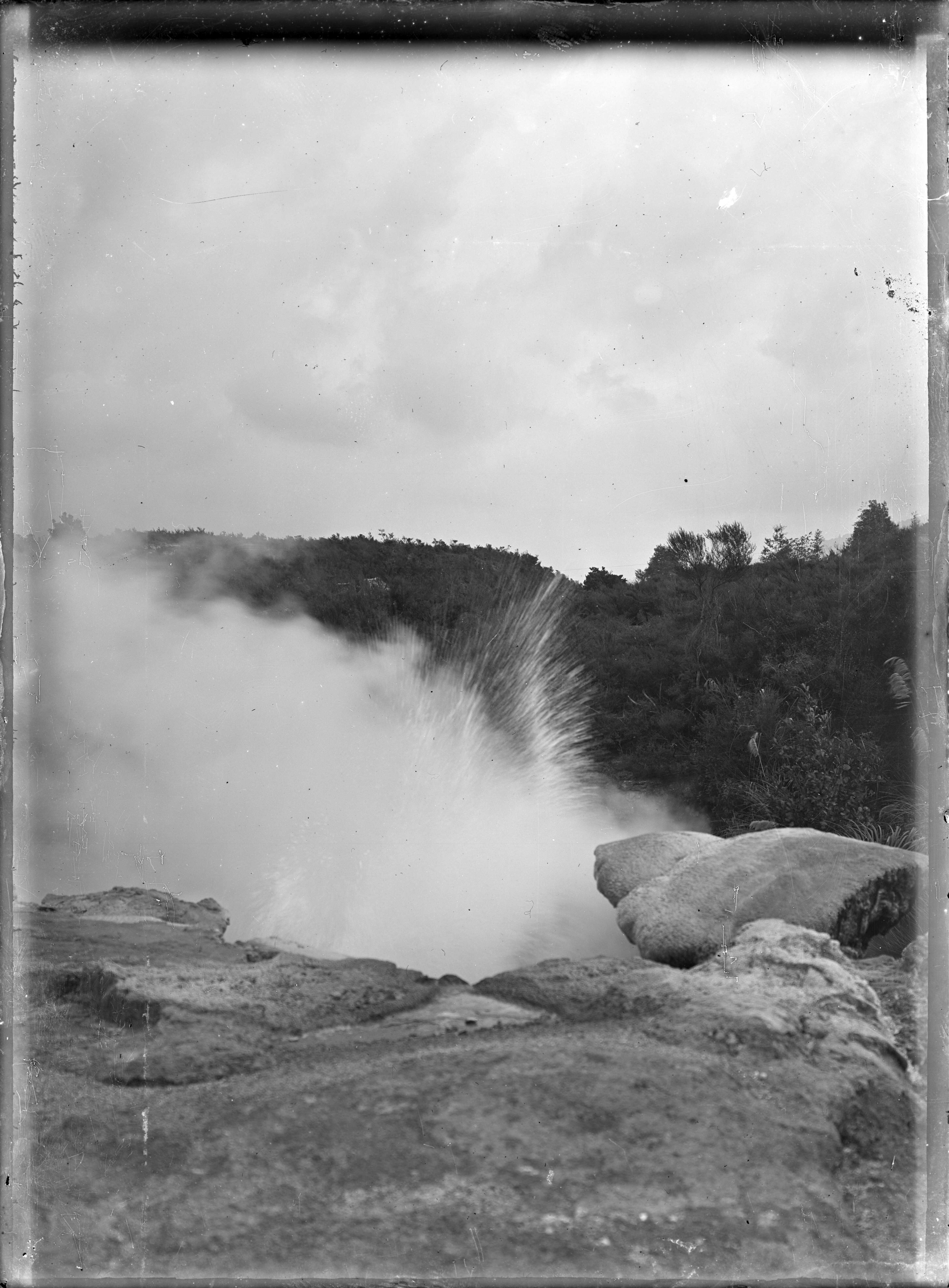 Papakura Geyser at Whakarewarewa. Photographed by Albert Percy Godber in 1916. Dated from other images in the Godber Album at PA1-q-102.